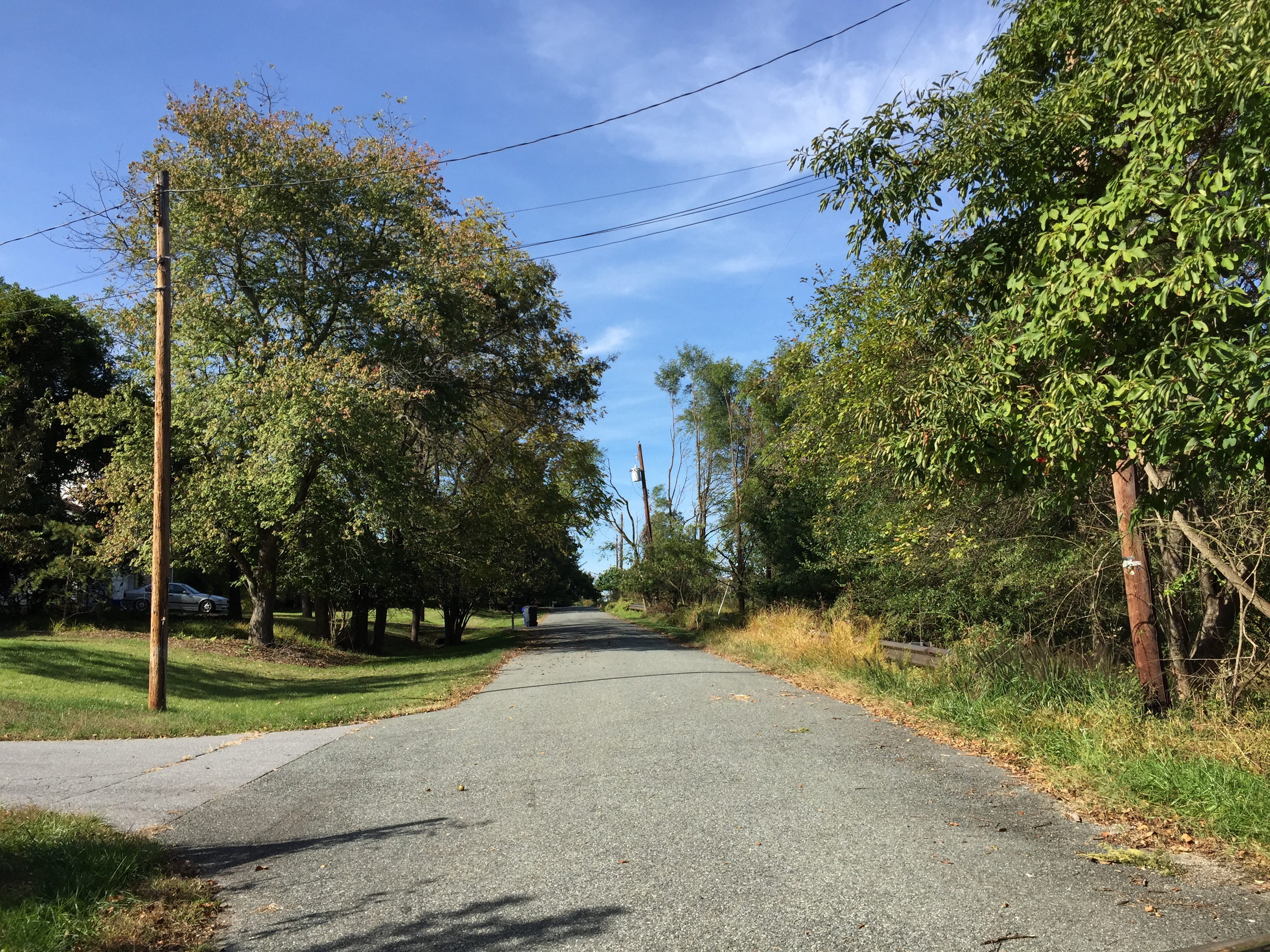 View west along Maryland State Route 899 (American Way) at Muddy Branch in North Potomac, Montgomery County, Maryland